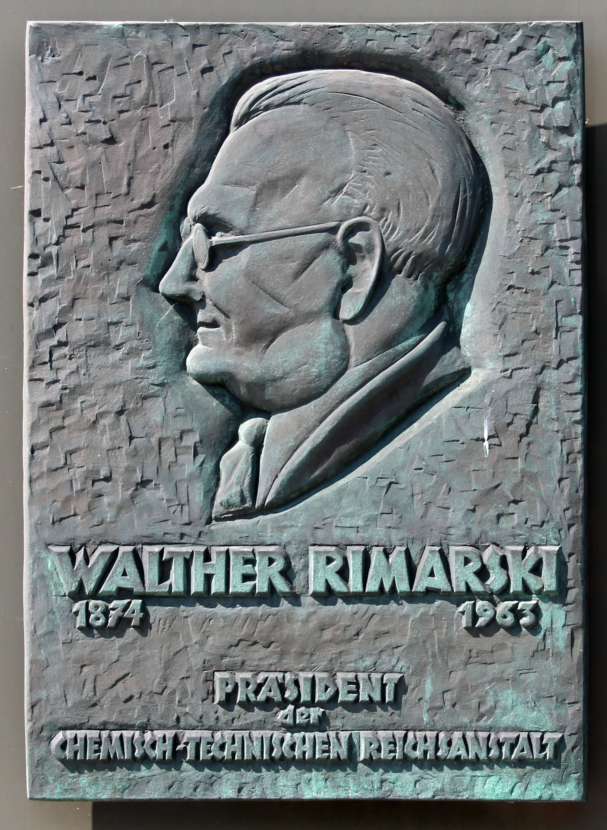 Memorial plaque, Walther Rimarski, Unter den Eichen 87, Berlin-Lichterfelde, Germany